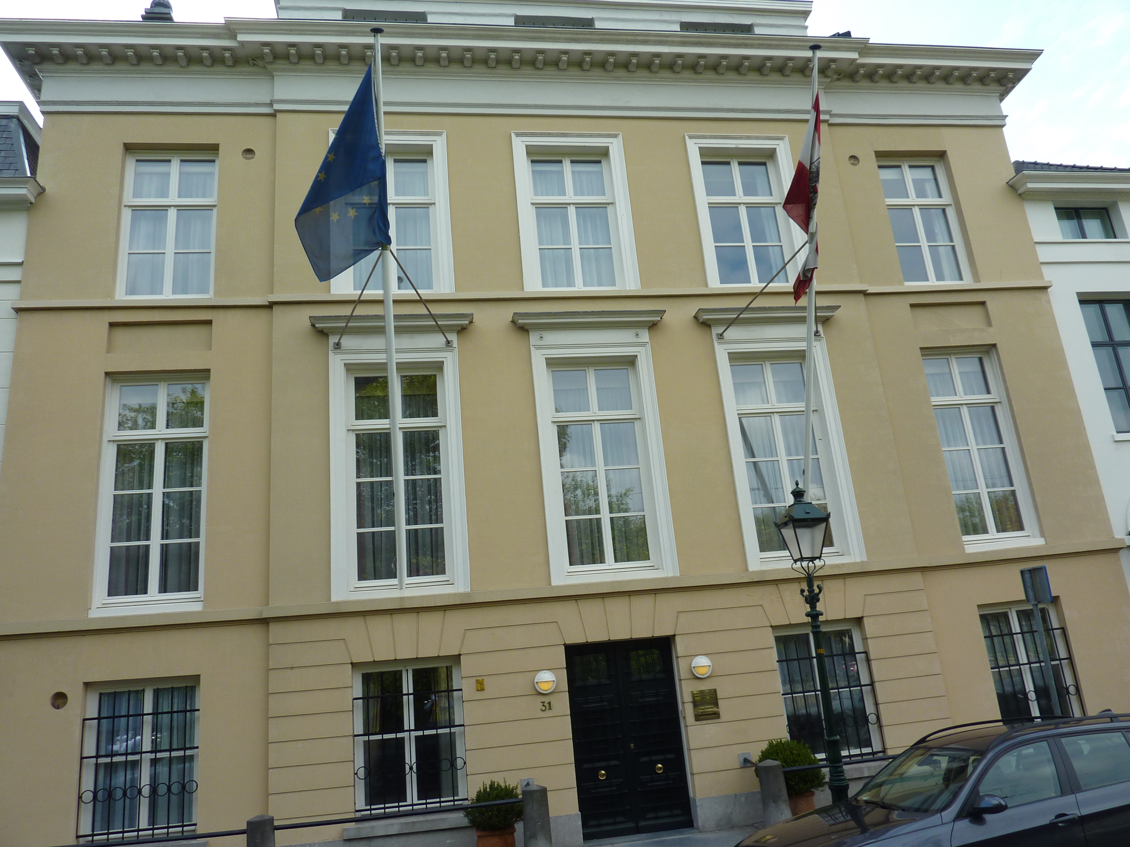 The building Koninginnegracht 31 in The Hague is the residence of the Austrian embassy in the Netherlands.